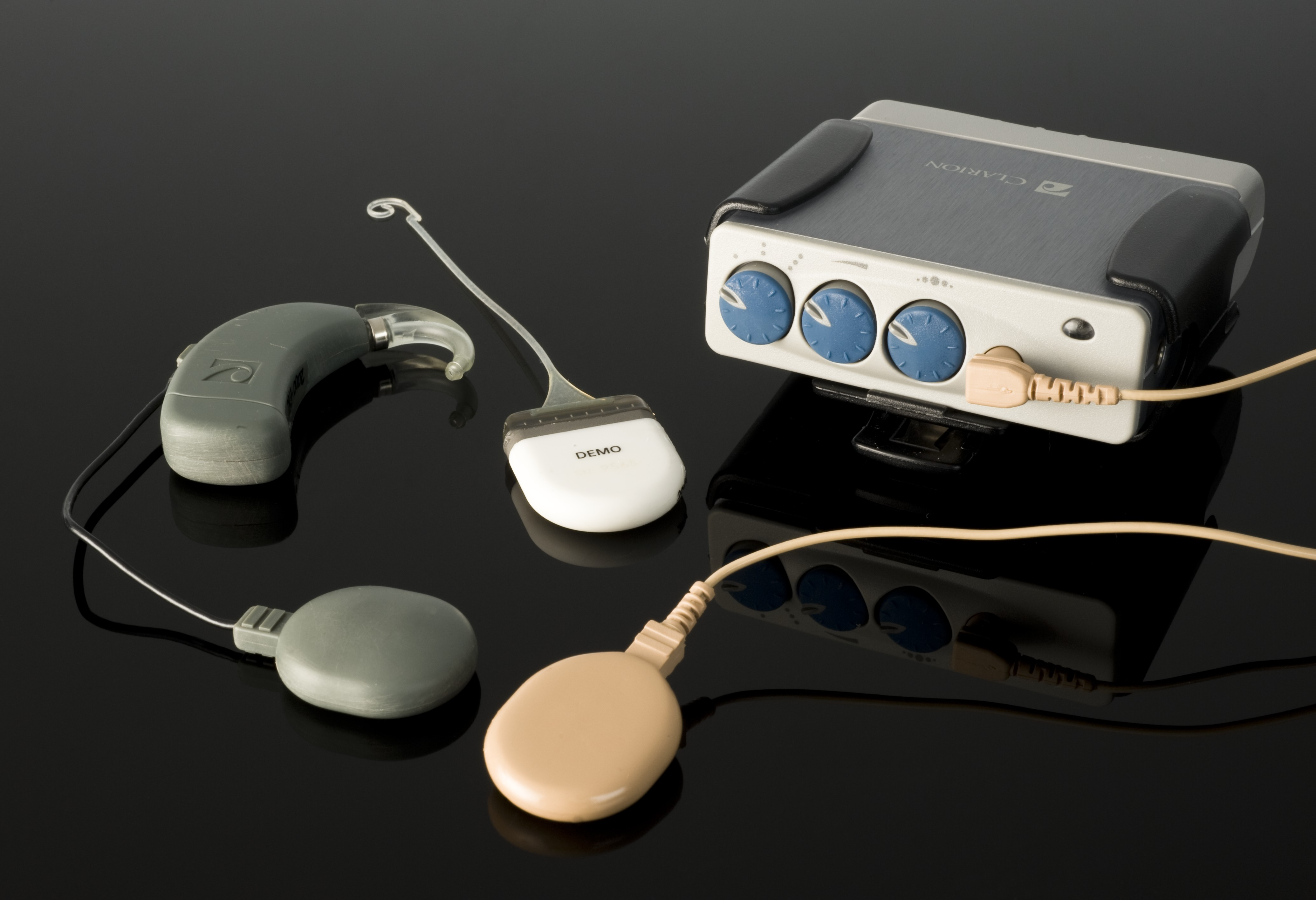 The only way to regain some hearing for many people who are severely or almost completely deaf is a cochlear implant. This surgically implanted electronic device picks up sound using an external microphone. Cochlear implants electrically stimulate the auditory nerve, bypassing the inner ear. They consist of three parts: the internal component implanted in the ear, the headpiece worn behind the ear, and the external speech processor usually worn attached to a belt. Some people in the deaf community argue cochlear implants ‘normalise’ people with hearing loss. This example was developed by Advanced Bionics UK Limited. maker: Advanced Bionics UK Limited Place made: United Kingdom Wellcome Images Keywords: Deafness; cochlear implant